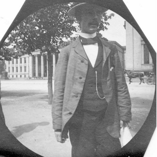 Norwegian professor of botany Haaken Hasberg Gran (1870–1955) pictured outside the University of Oslo buildings around 1893